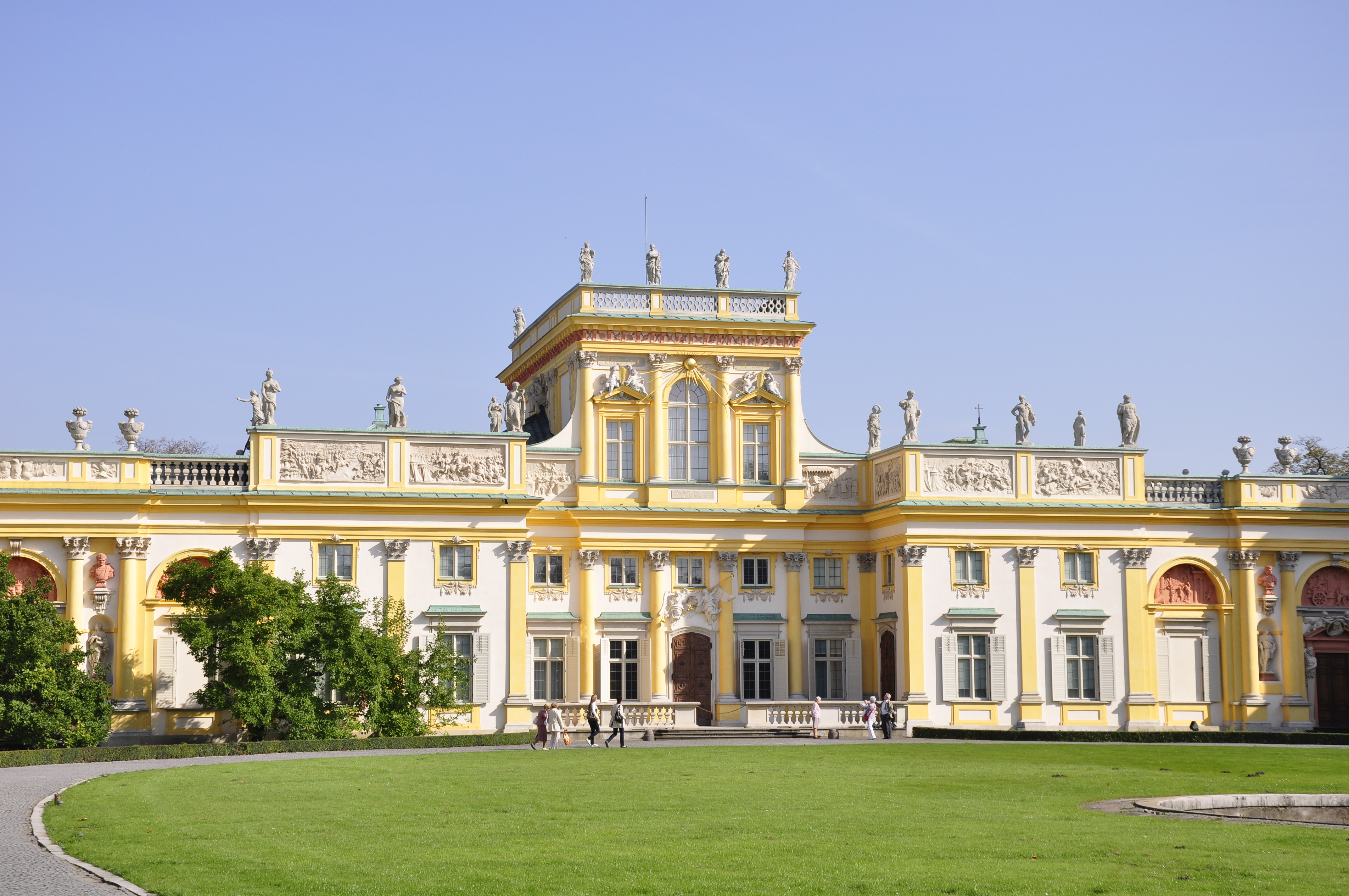 Corps de logis of the Wilanów Palace.